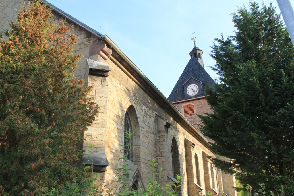 Church of Sollstedt